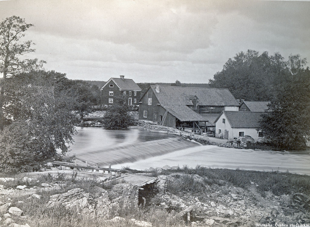 The mill at Karlslund, Örebro, Sweden